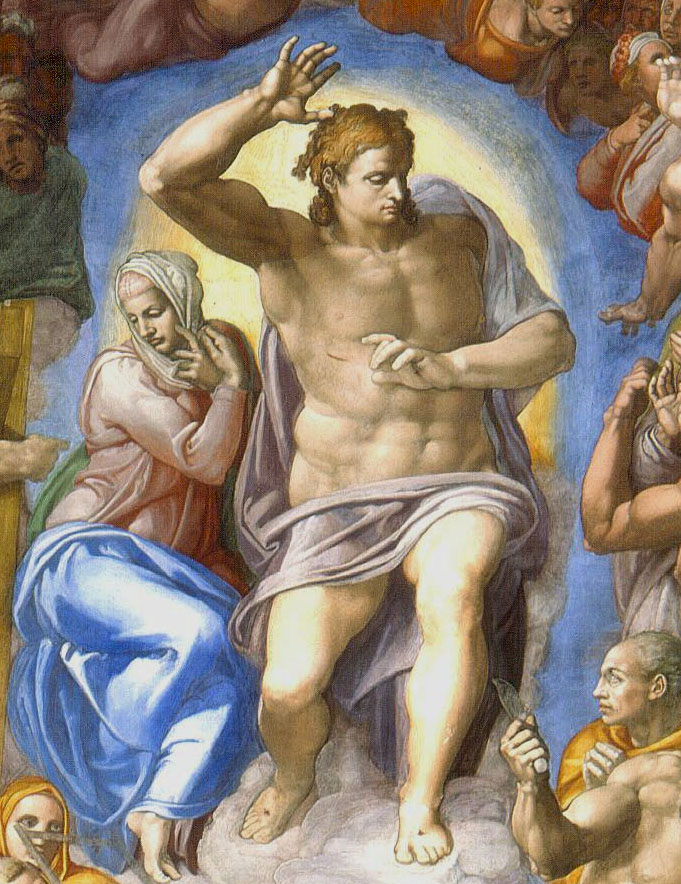 Detail from The Last Judgement by Michelangelo